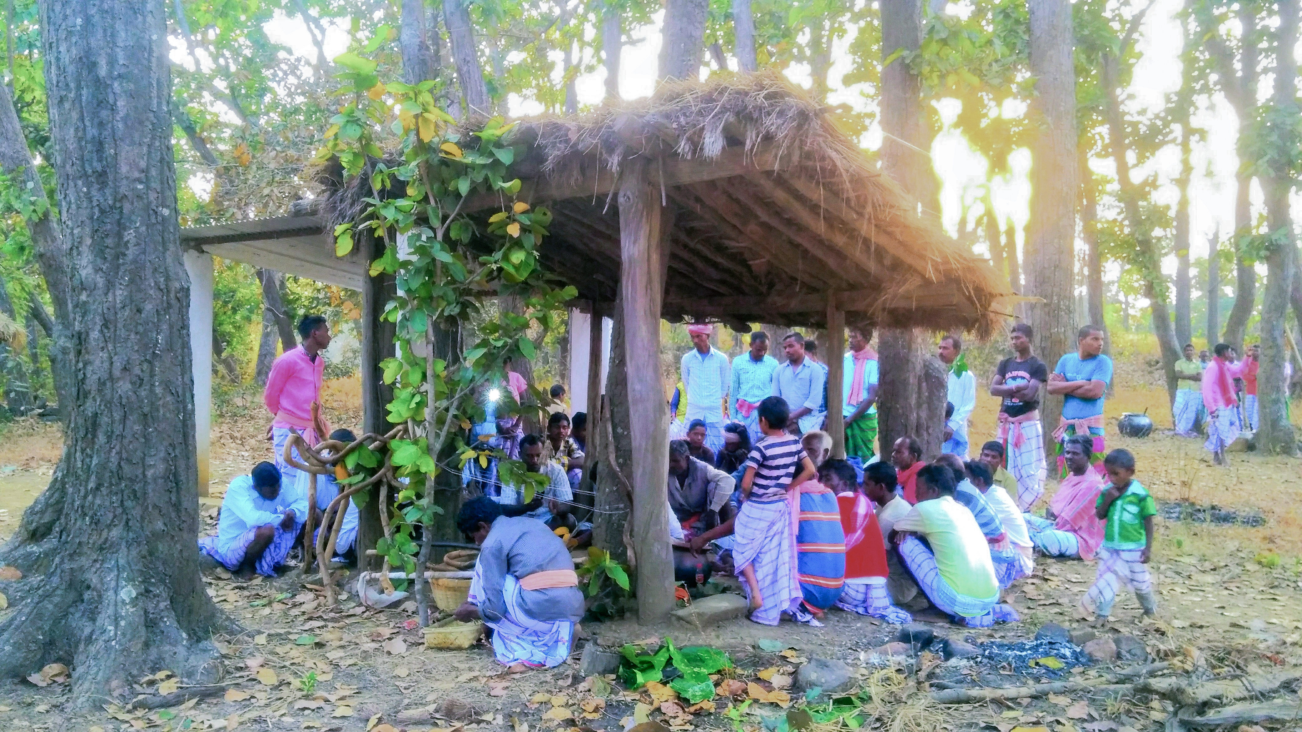 "JAAHER garh" is the worshiping place of santhal people and other sarna religions. (This photo was taken in BAHA festival 2018 at gobindpur village of Mayurbhanj nearest to Badampahar)